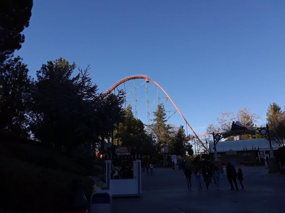 A view of Goliath from the Whistlestop section of the park.